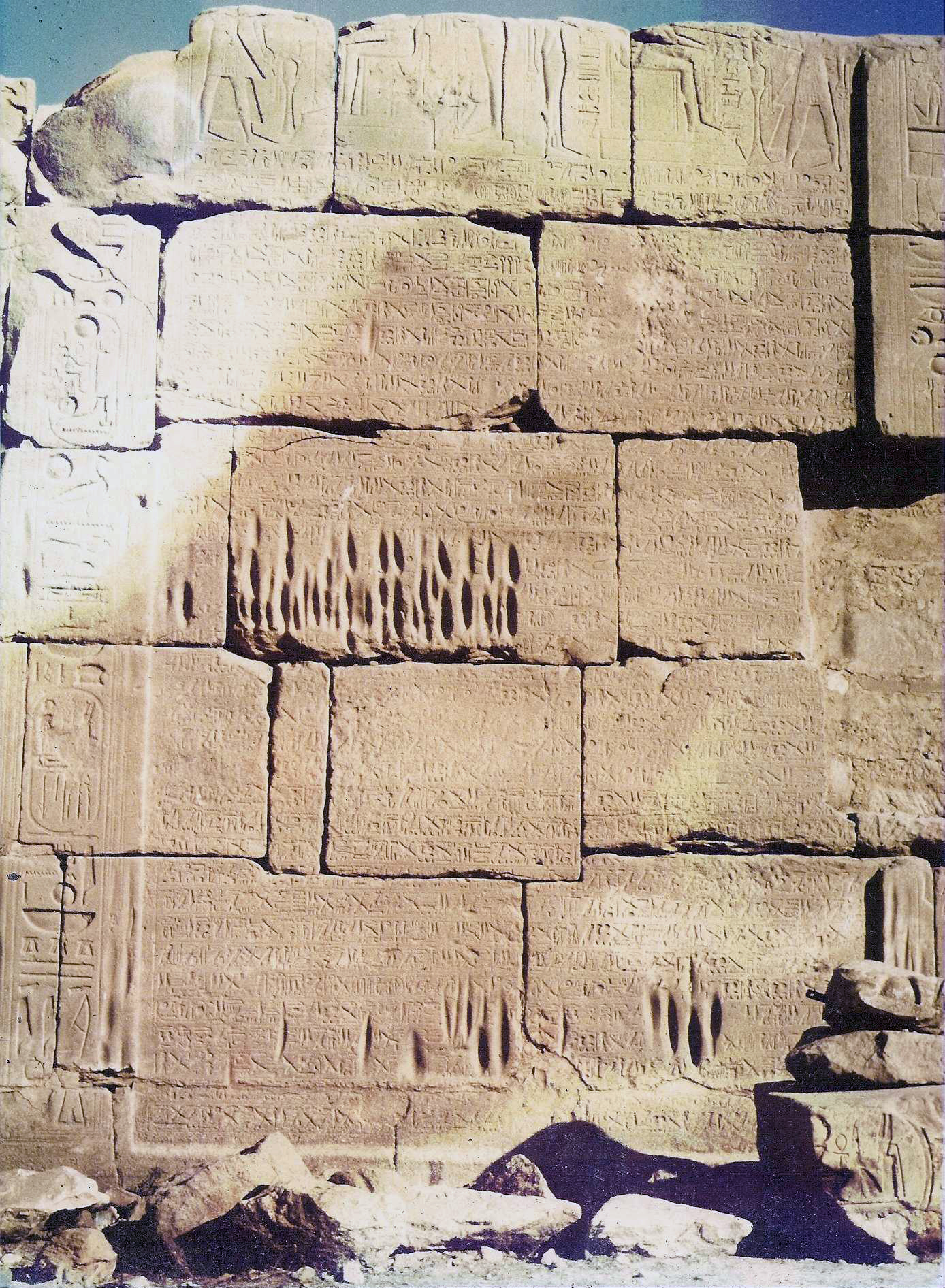 Hieroglyphic text of the peace treaty between Ramesses II and Hattusili III